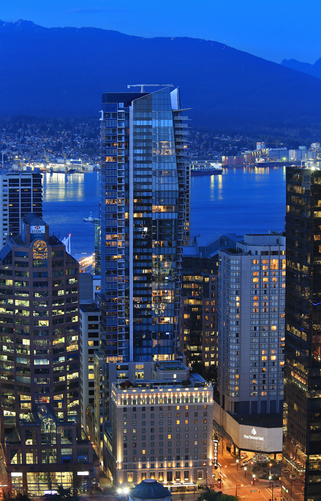 Private Residences at Hotel Georgia tower in Vancouver.